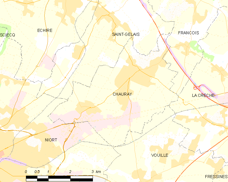 Map of French municipality Chauray